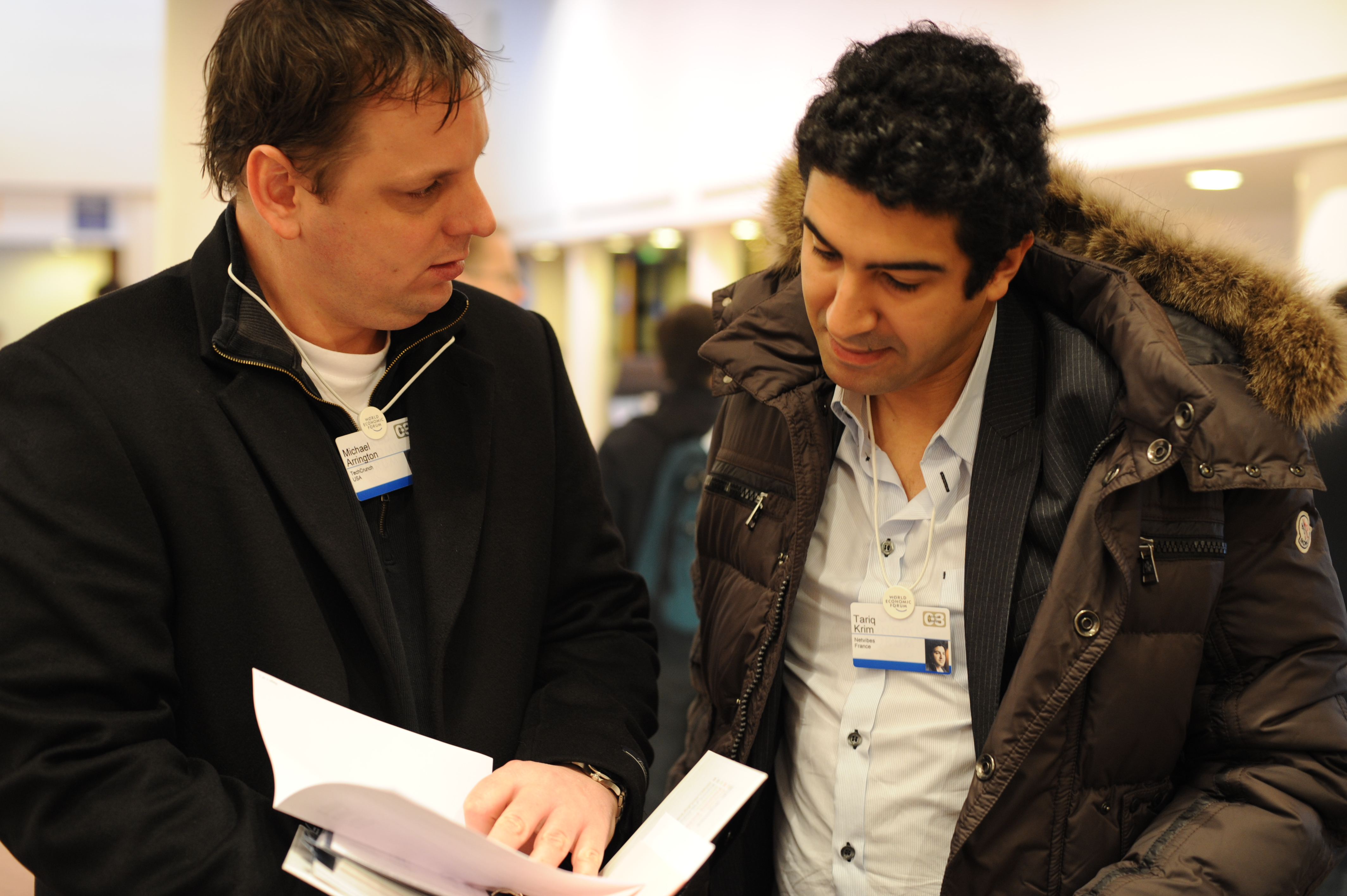 Michael Arrington, famous blogger, and Tariq Krim, founder of Netvibes, at the 2008 World Economic Forum.Mike Arrington and Tariq Krim, CEO of Netvibes